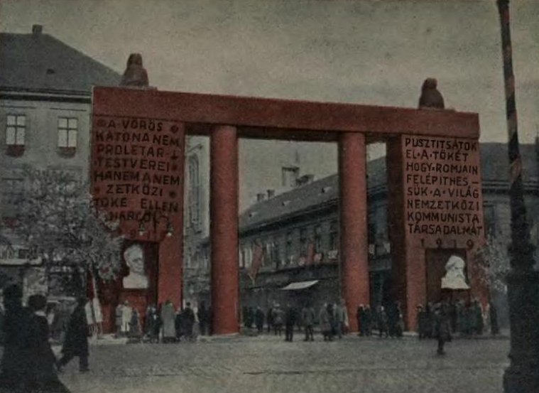 First of May celebrations in Budapest under the Soviet Republic, 1919. Andrassy Avenue decorations and propaganda.